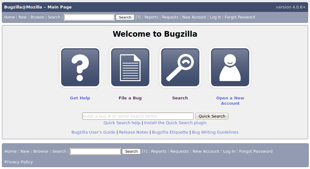 Bugzilla version 4.0.6+ in action on